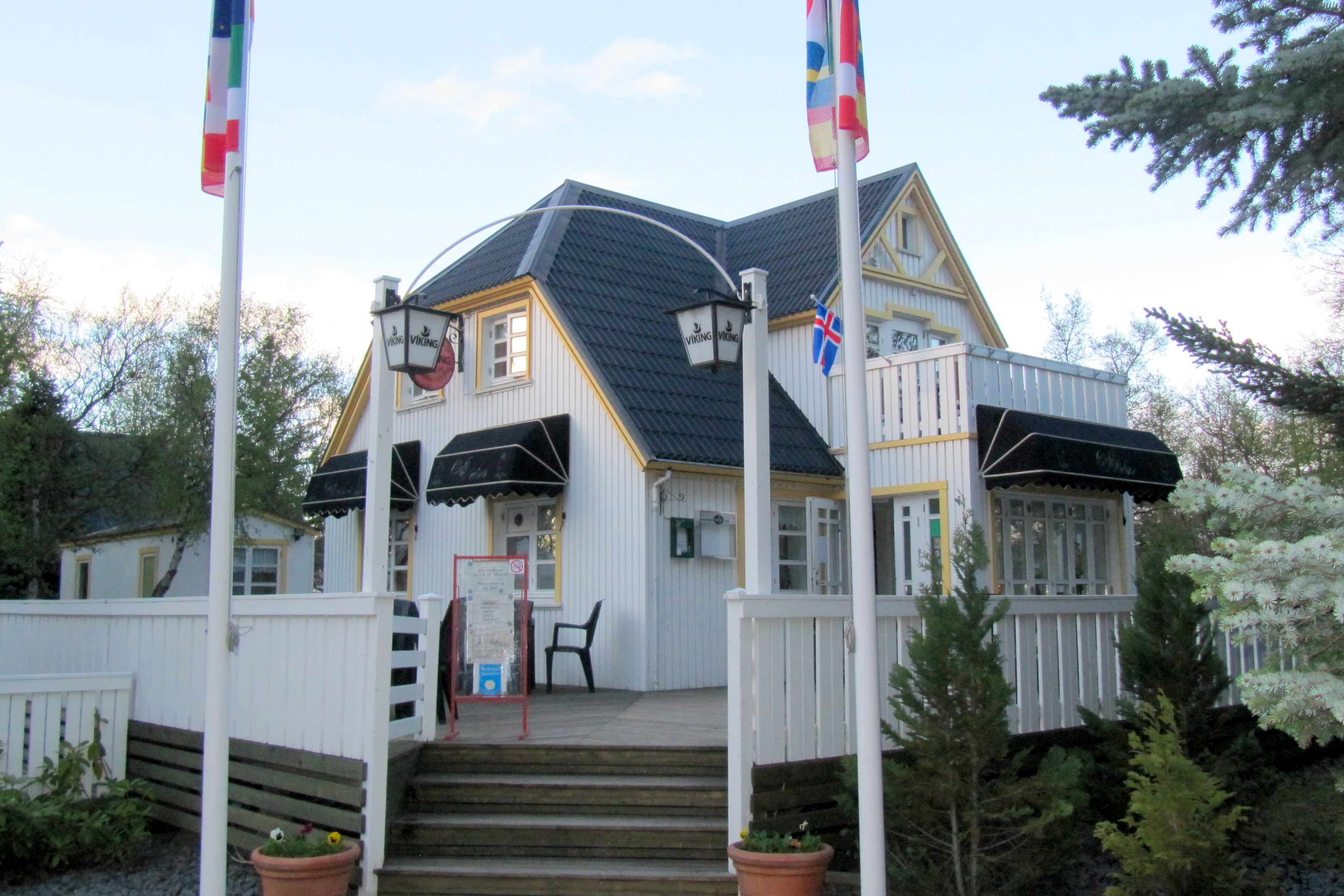 Nielsenshus, now Café Nielsen, oldest private house in Egilsstaðir, built in 1944.